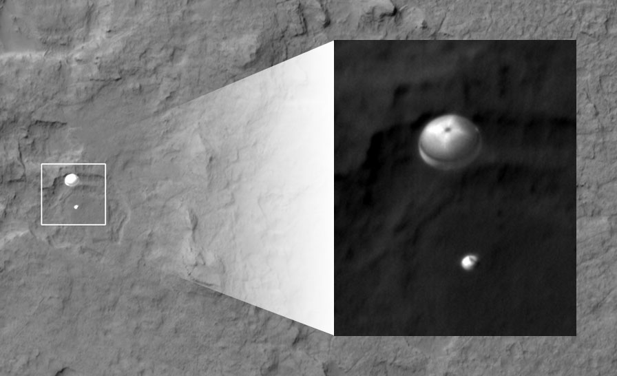 NASA's Curiosity rover and its parachute were spotted by NASA's Mars Reconnaissance Orbiter as Curiosity descended to the surface on 5 Aug 2012 PDT (6 Aug EDT). The High-Resolution Imaging Science Experiment (HiRISE) camera captured this image of Curiosity while the orbiter was listening to transmissions from the rover. Curiosity and its parachute are in the center of the white box; the inset image is a cutout of the rover, shown with reduced brightness to avoid saturation. The rover is descending toward the etched plains just north of the sand dunes that fringe "Mt. Sharp." From the perspective of the orbiter, the parachute and Curiosity are flying at an angle relative to the surface, so the landing site does not appear directly below the rover. The parachute appears fully inflated and performing perfectly. Details in the parachute, such as the band gap at the edges and the central hole, are clearly seen. The cords connecting the parachute to the back shell cannot be seen, although they were seen in the image of NASA's Phoenix lander descending, perhaps due to the difference in lighting angles. The bright spot on the back shell containing Curiosity might be a specular reflection off of a shiny area. Curiosity was released from the back shell sometime after this image was acquired. This view is one product from an observation made by HiRISE targeted to the expected location of Curiosity about one minute prior to landing. It was captured in HiRISE CCD RED1, near the eastern edge of the swath width (there is a RED0 at the very edge). This means that the rover was a bit further east or downrange than predicted. The image scale is 13.2 inches (33.6 centimeters) per pixel.